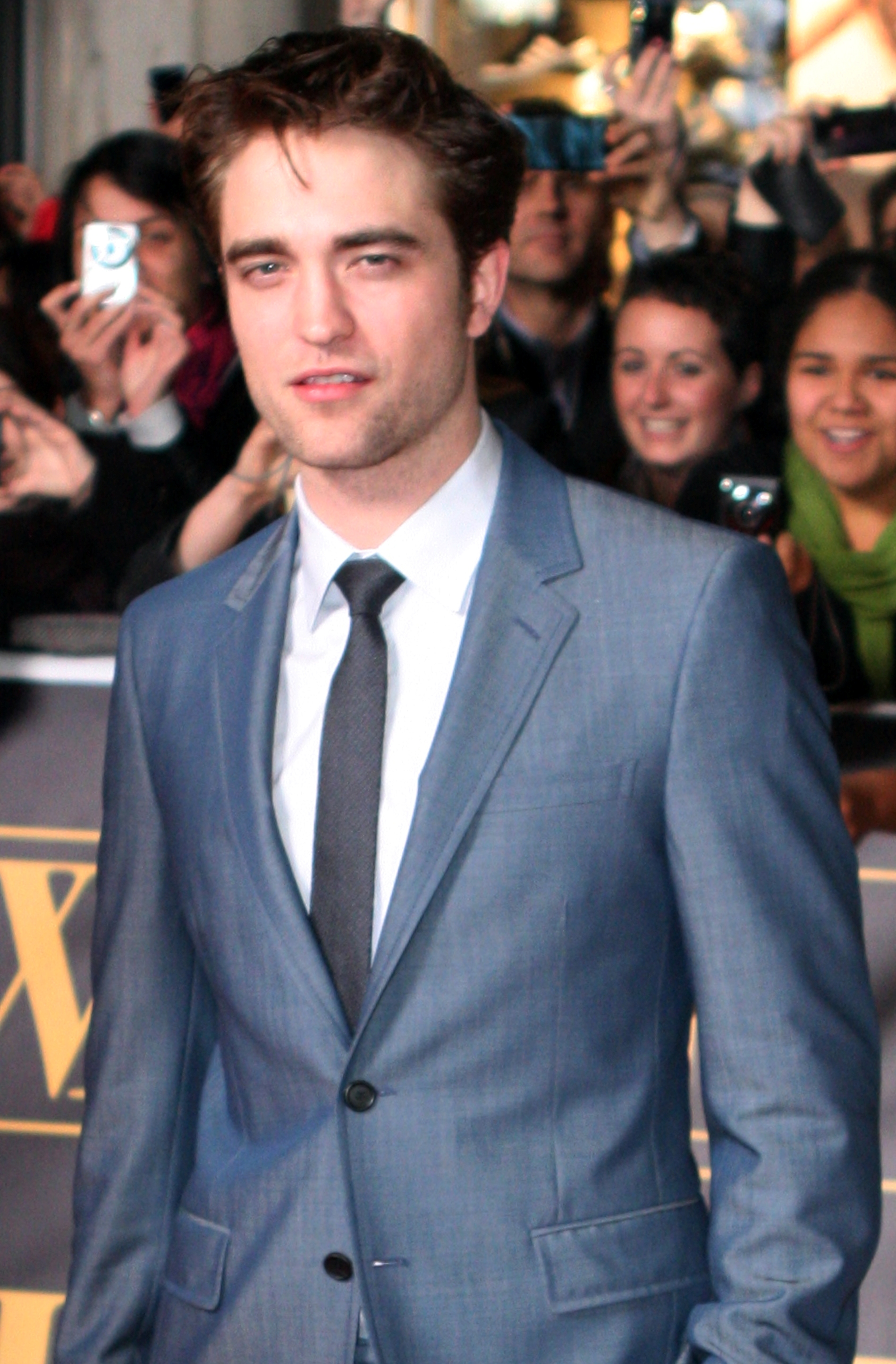 Robert Pattinson at the premiere for Water for Elephants in May 2011